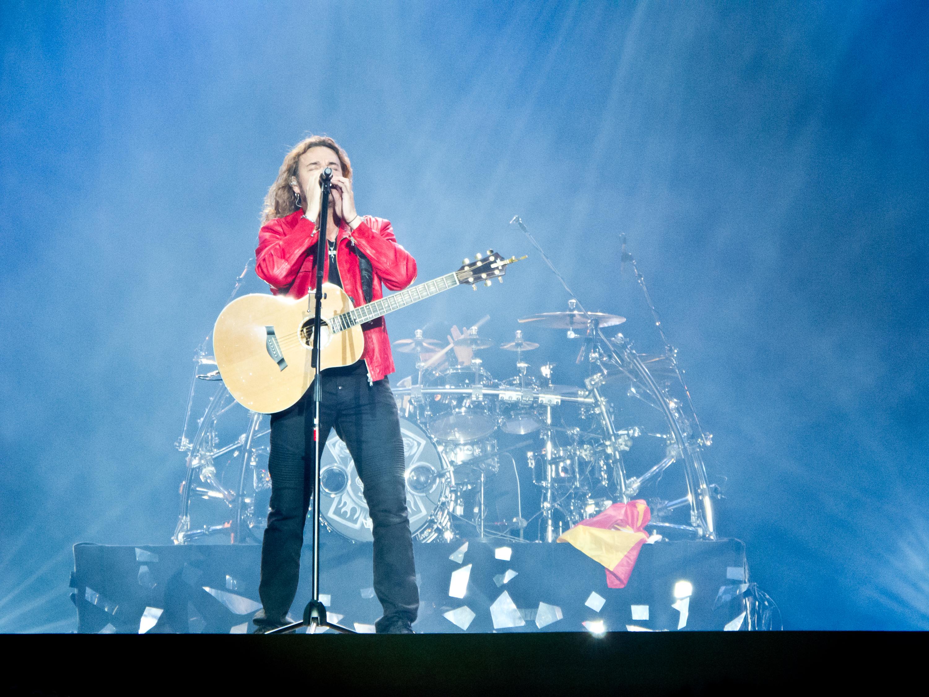 Maná in concert in Rock in Rio in Madrid in 2012.